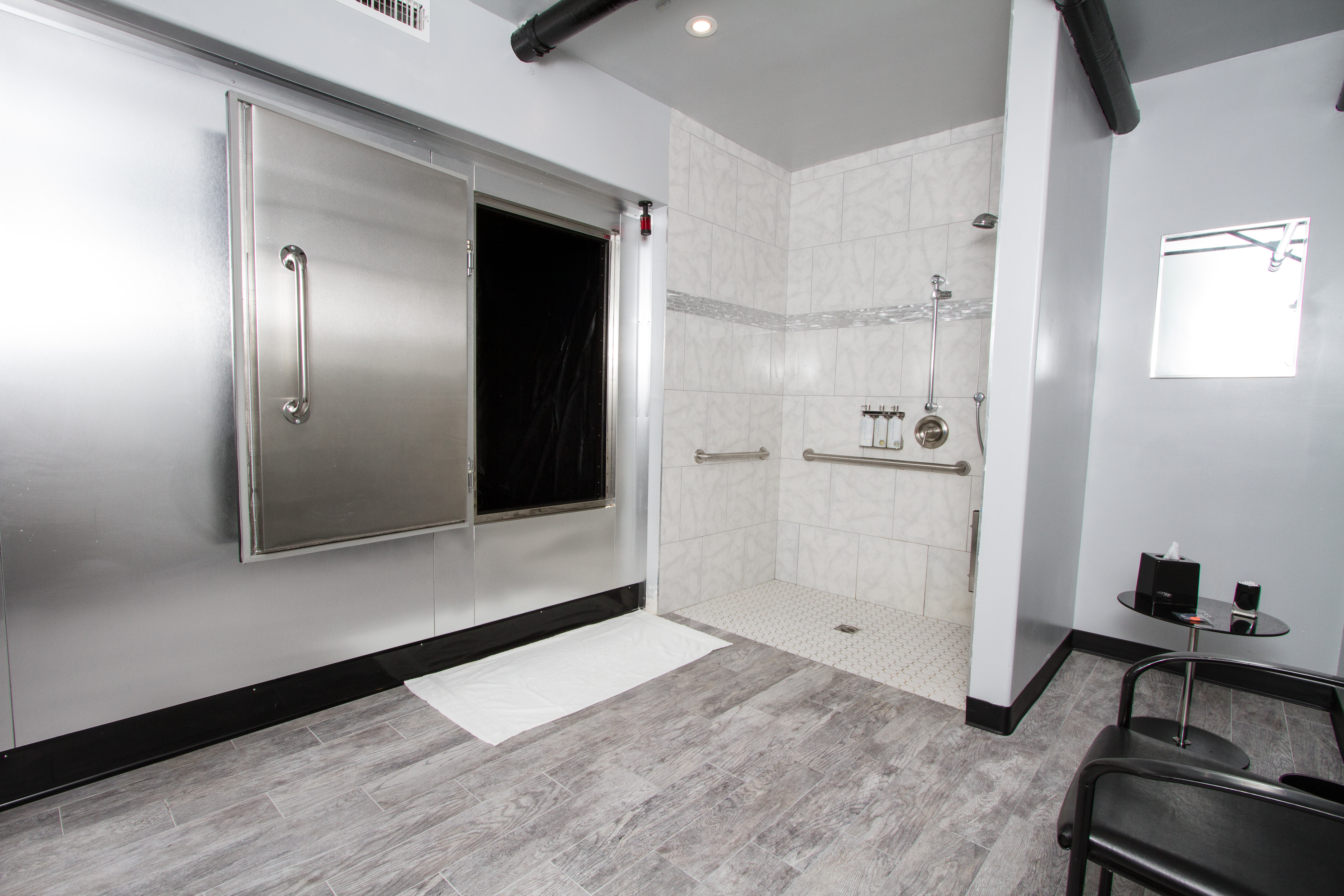 Float Lab Sensory Deprivation Chamber in Los Angeles, CA